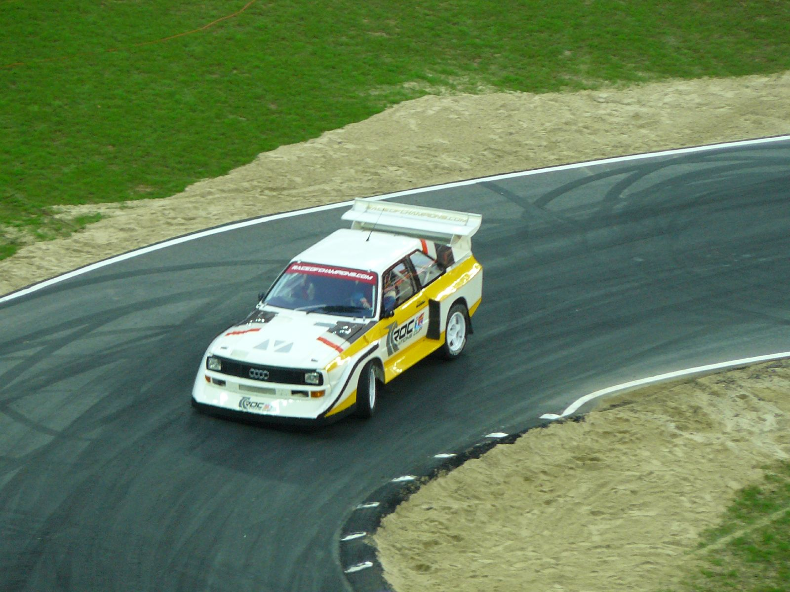 Stig Blomqvist driving an Audi Quattro as a demo run at the 2007 Race of Champions at Wembley Stadium.